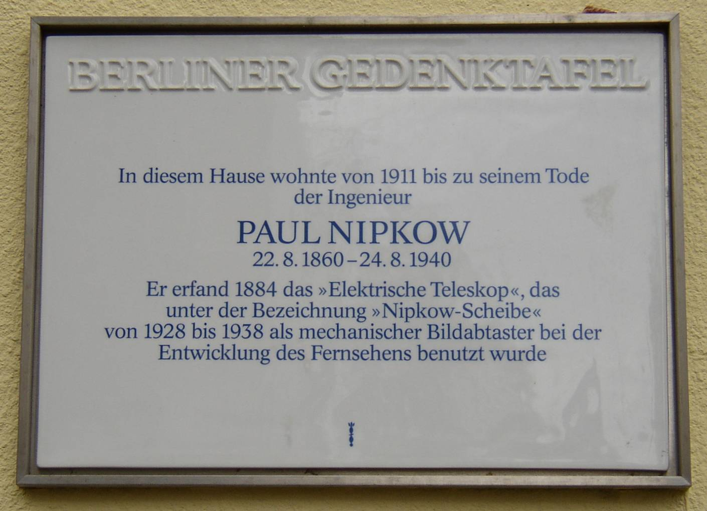 Berlin memorial plaque for Paul Nipkow in Berlin-Pankow, Germany